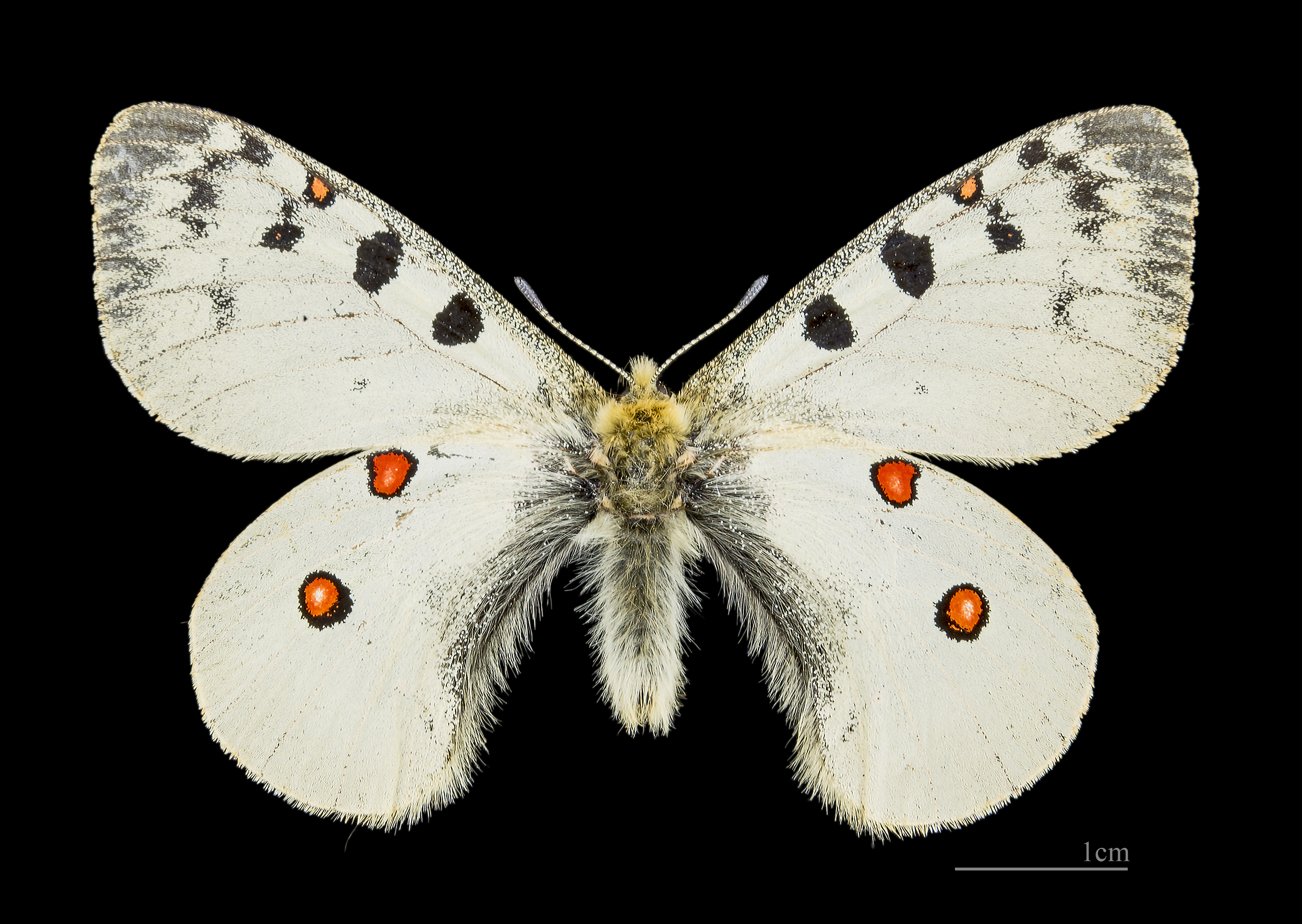 Phoebus Apollo. Dorsal side.